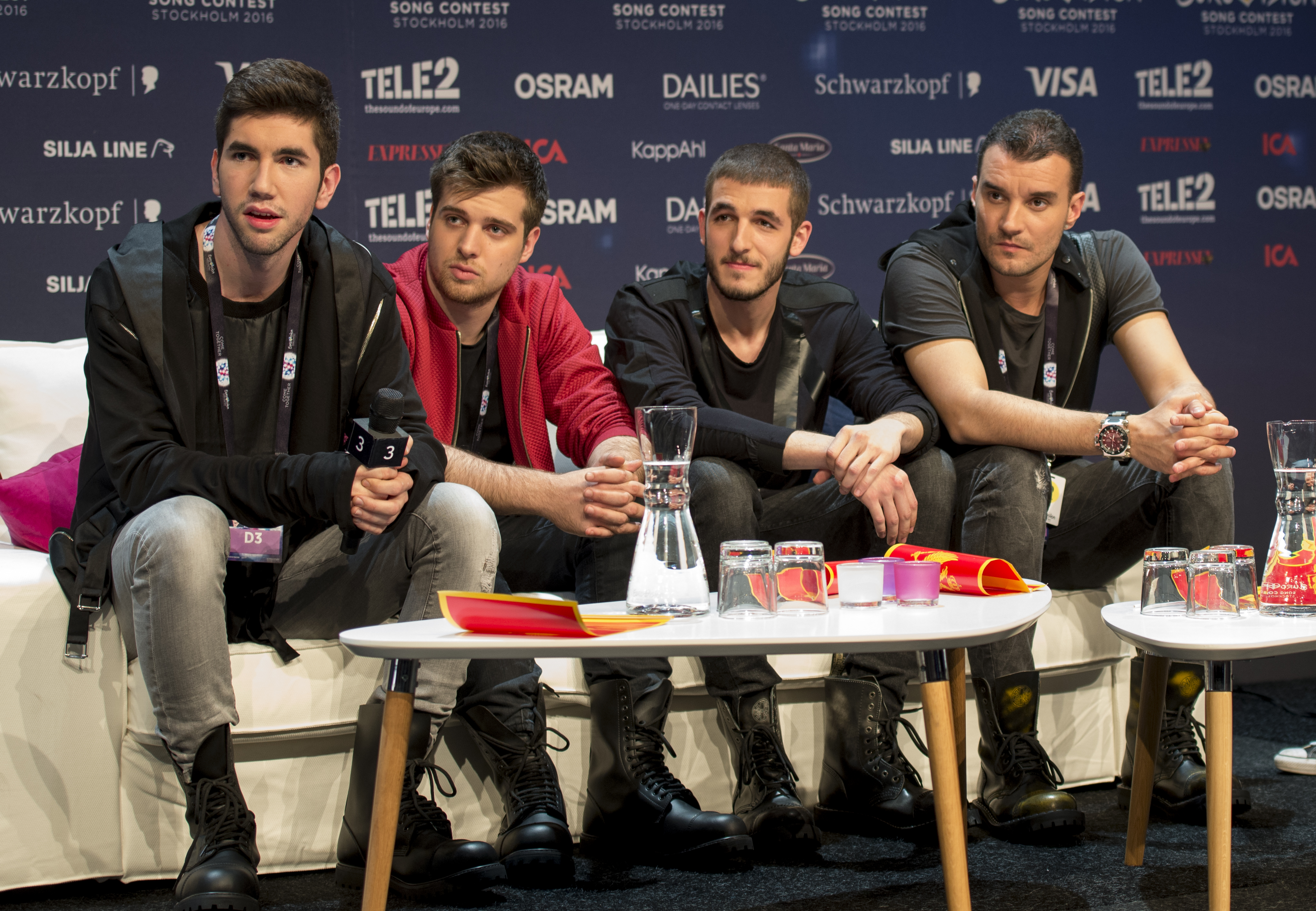 Highway at a Meet & Greet during the Eurovision Song Contest 2016 in Stockholm. (Help translate this text)